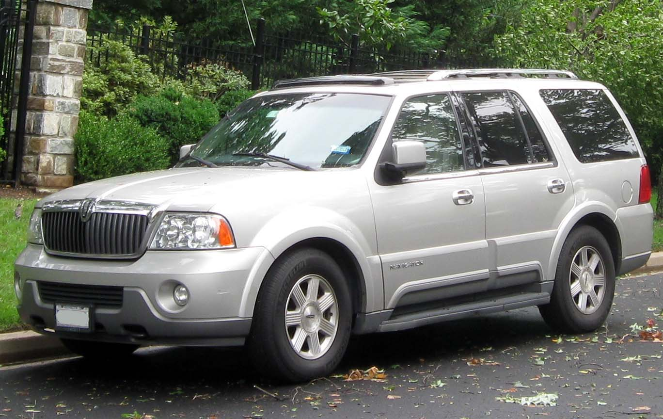 2003-2004 Lincoln Navigator photographed in Washington, D.C., USA.